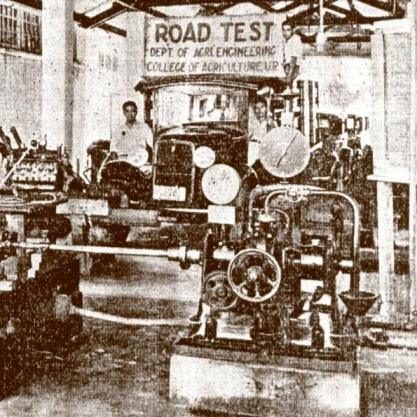 A 1929 DeSoto used by the University of the Philippines College of Agriculture in biofuels experiments.